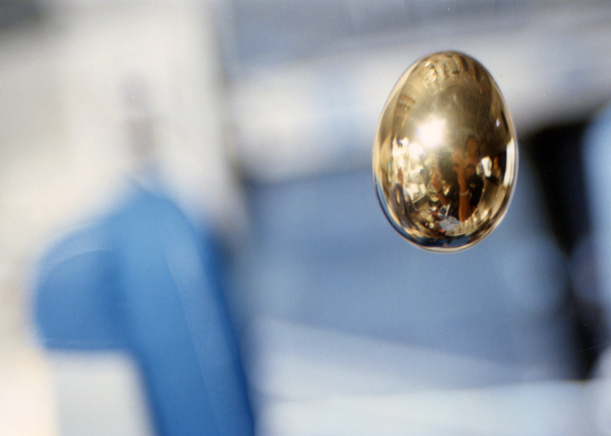 When the D1 mission was launched in 1985, experiments in weightlessness were met with some criticism. This image shows a golden egg floating on board Spacelab. On its surface you can see a reflection of the astronaut, Wubbo Ockels.